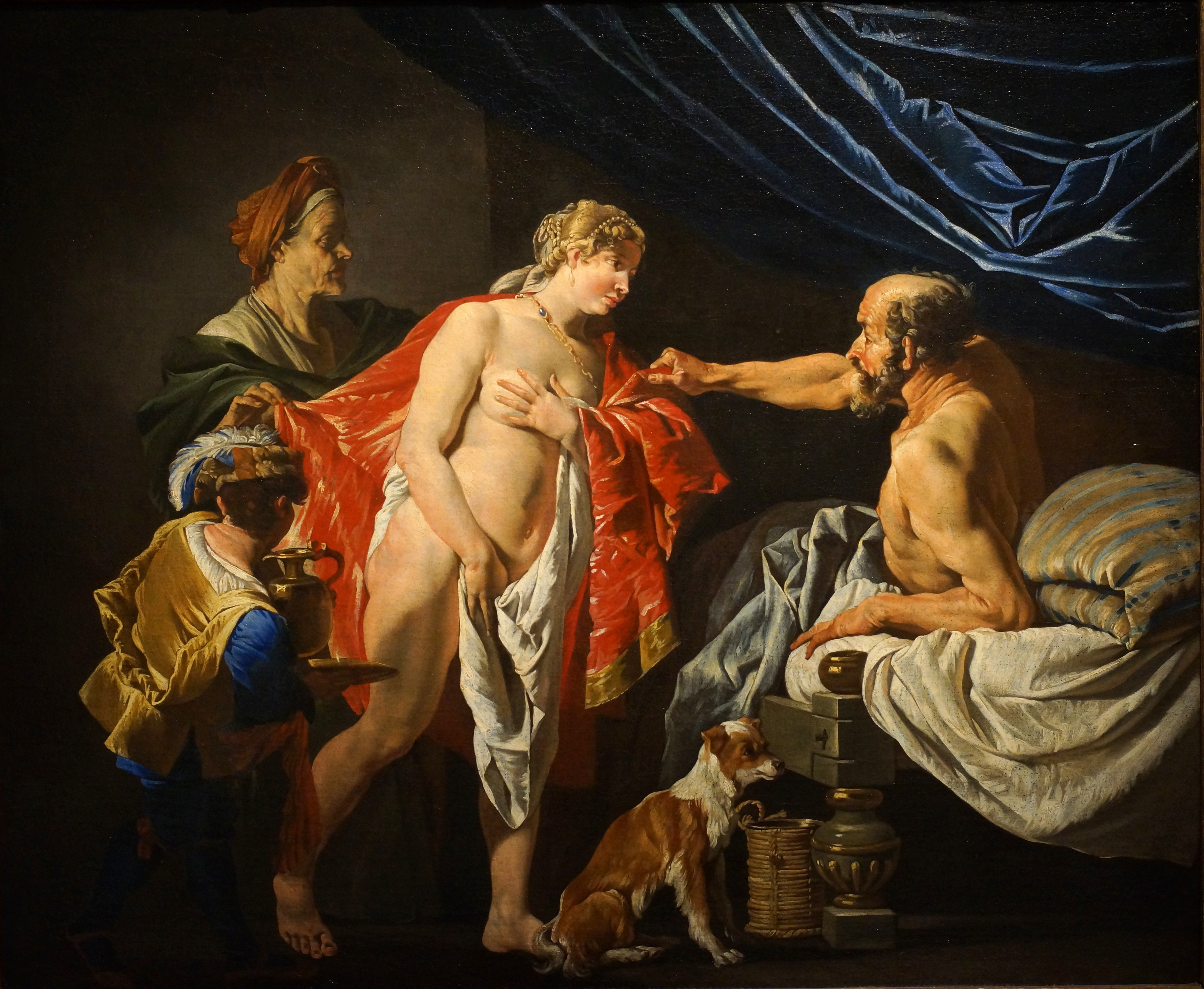 Sarai offering Hagar to Abram (Genesis 16:2) This is a photo of an artwork at the Gothenburg Museum of Art in Sweden with the identifier: GKM 1496